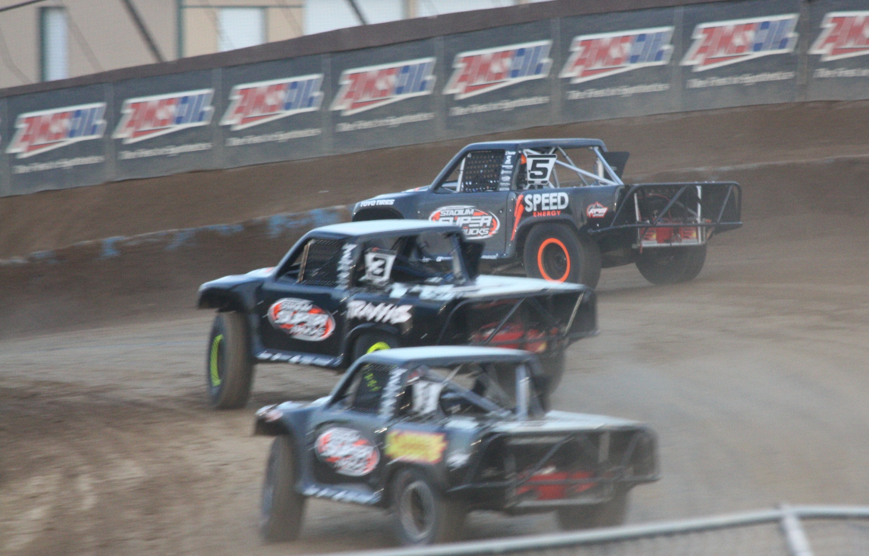 Robby Gordon leads the field full of major off road racing drivers in an exhibition of his Stadium Super Trucks at Crandon.